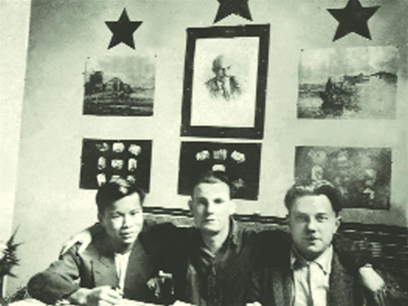 vietnamese communist Nguyen Van Tao (left) with french FCP members in 1927